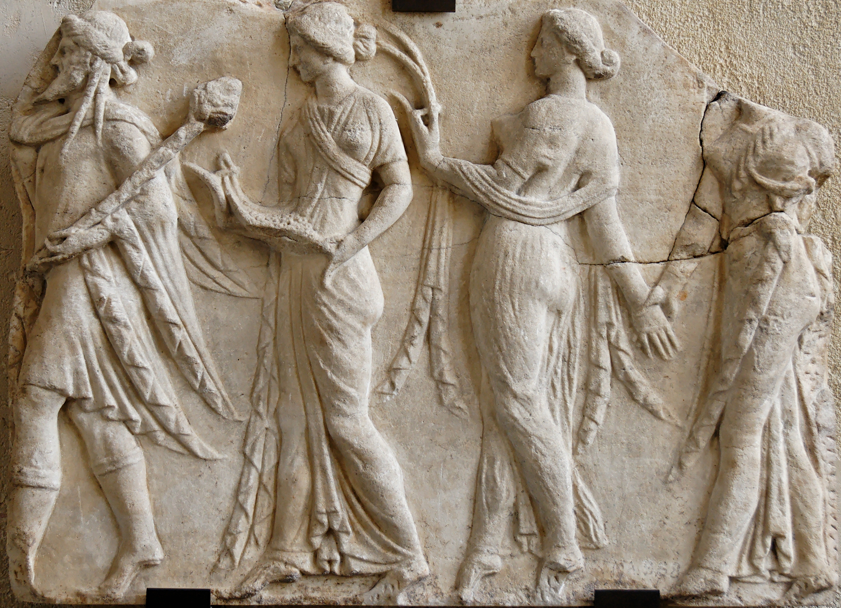 Bearded Dionysos leading the Horai (Seasons). Marble, Roman copy of the 1st century CE after a Hellenistic neo-Attic work.